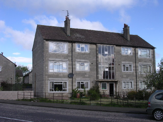 Douglas and Angus. Douglas and Angus is an area of Local Authority housing built in the 1950s to rehouse families from the inner city of Dundee which was undergoing progressive redevelopment. The housing is mainly flats, as here, or terraced villas